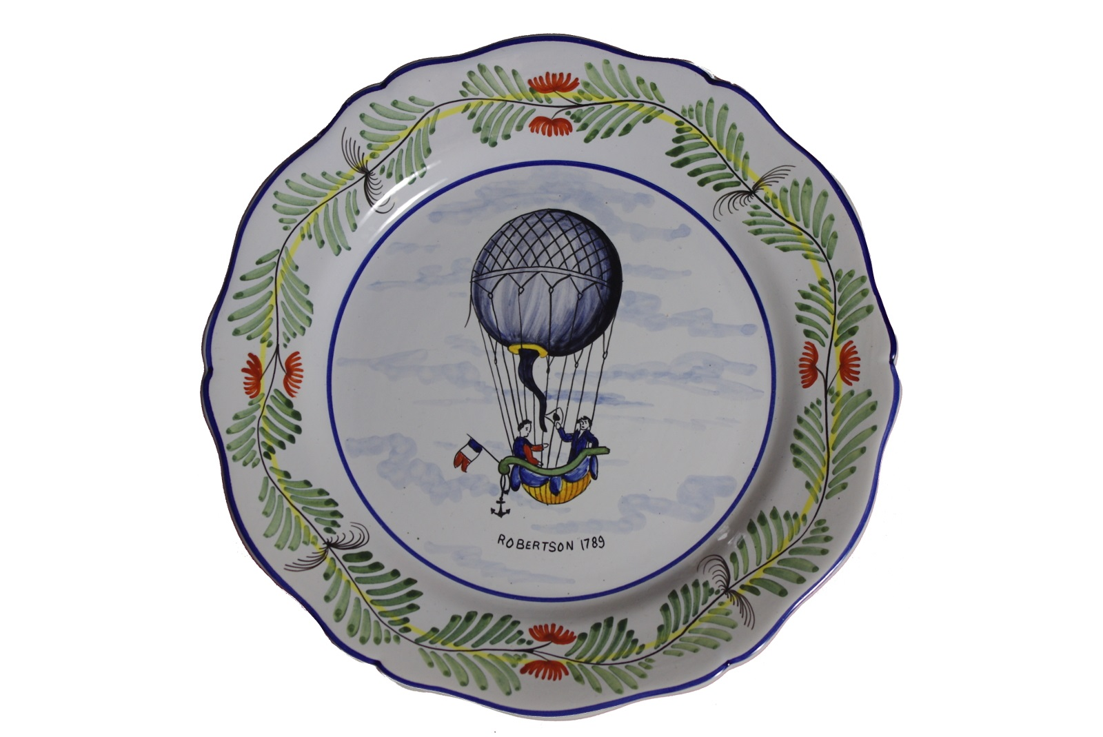 18th century faience plate commerating robertson's flight. public domain due to age!